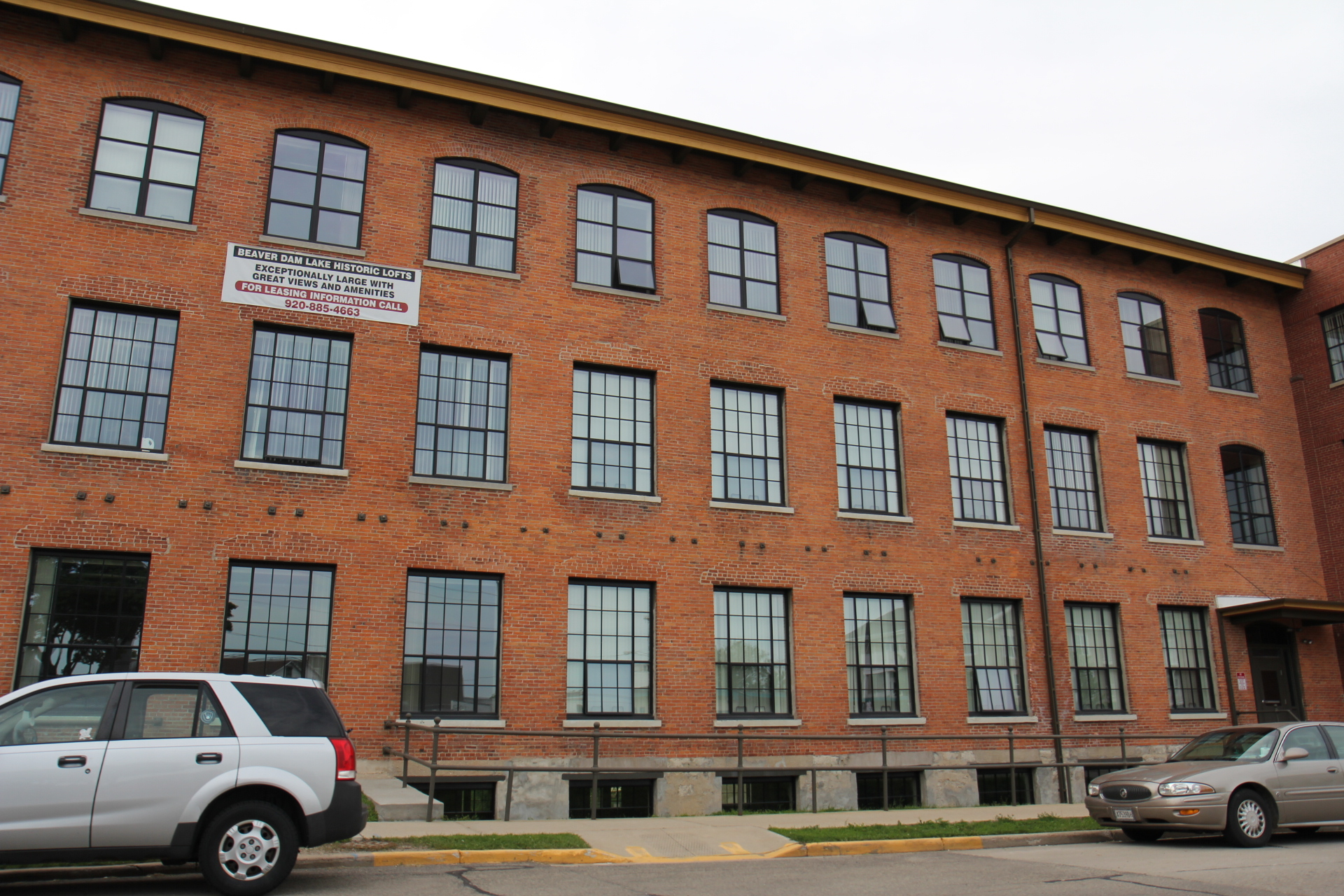 The front of the Paramount Knitting Company in Beaver Dam, Wisconsin. It is listed on the National Register of Historic Places.